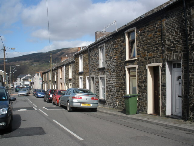 High Street, Mountain Ash